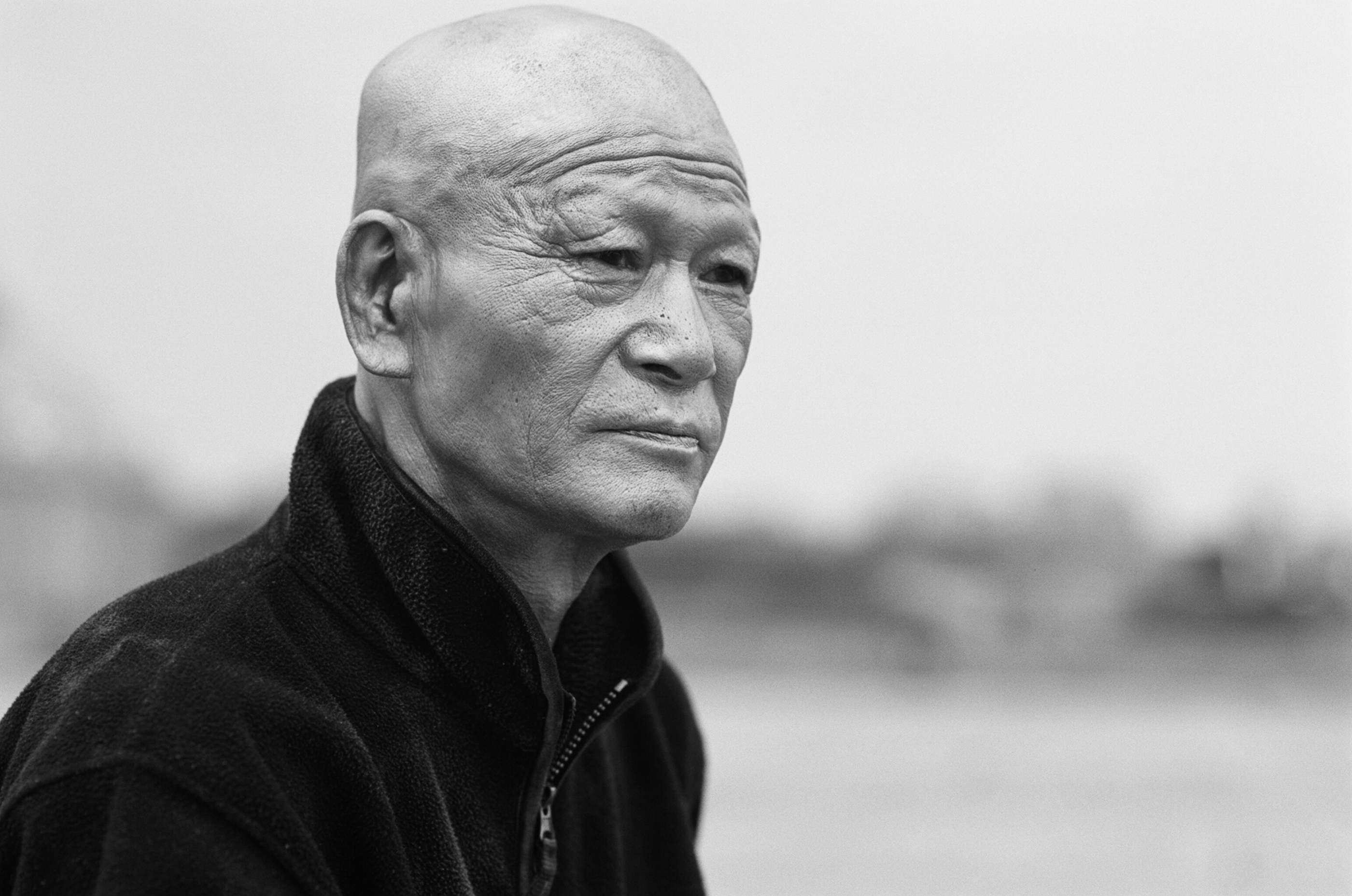 Ko Murobushi in Vienna, Austria in July 2008.